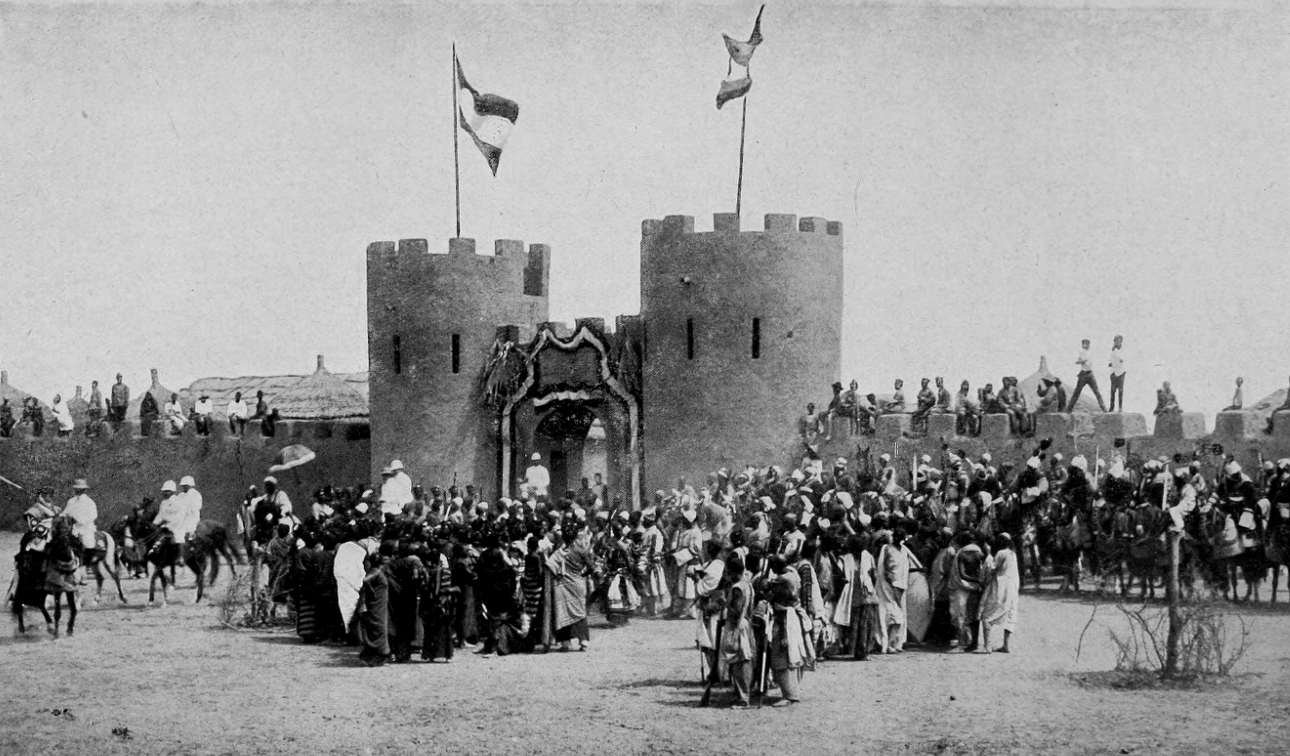 German Station Kusseri (in 1910)